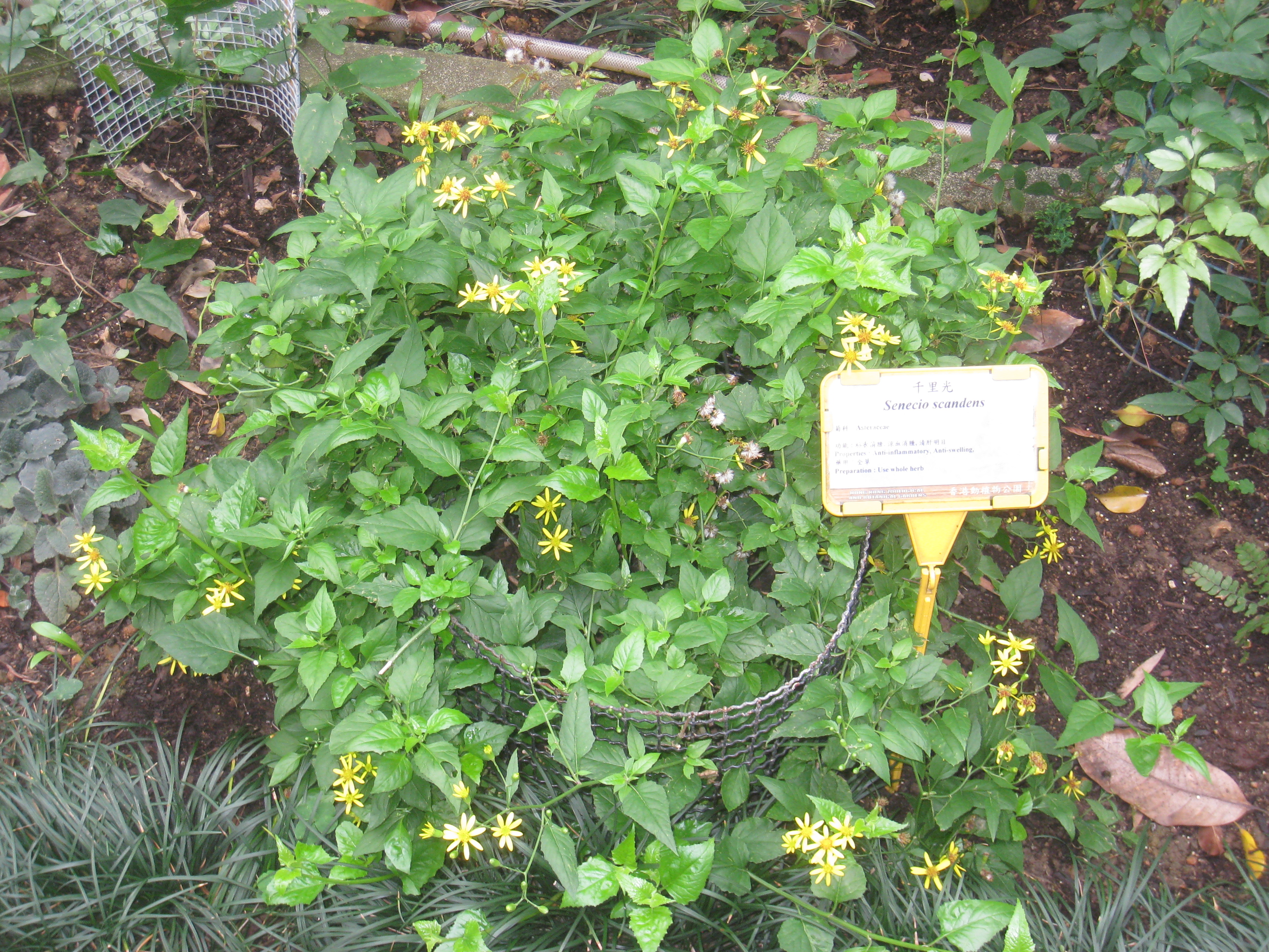 Senecio scandens. Plant specimen in the Hong Kong Zoological and Botanical Gardens, Hong Kong.